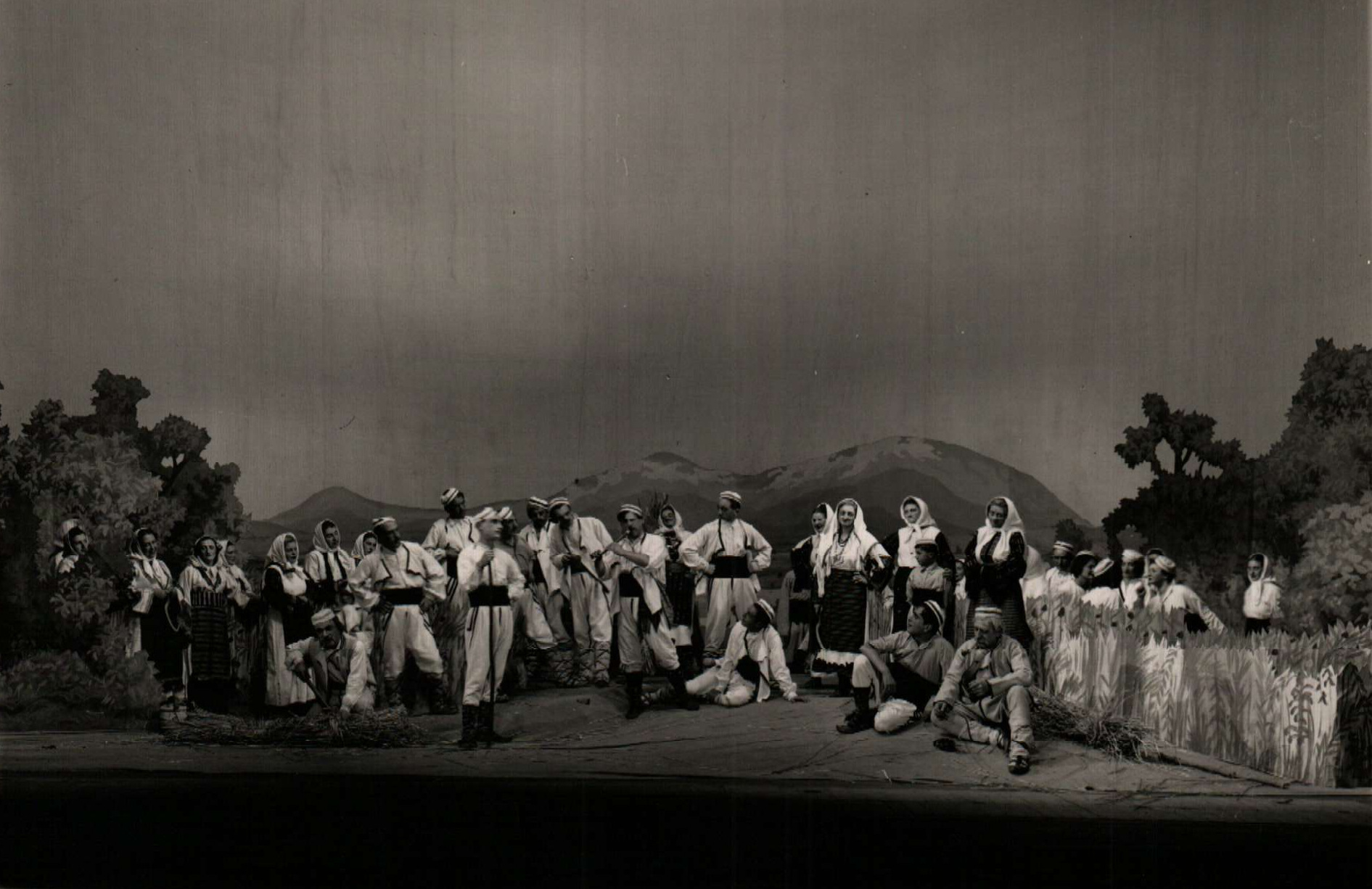 Actors of the opera "Tsveta" from Maestro Georgi Atanasov.